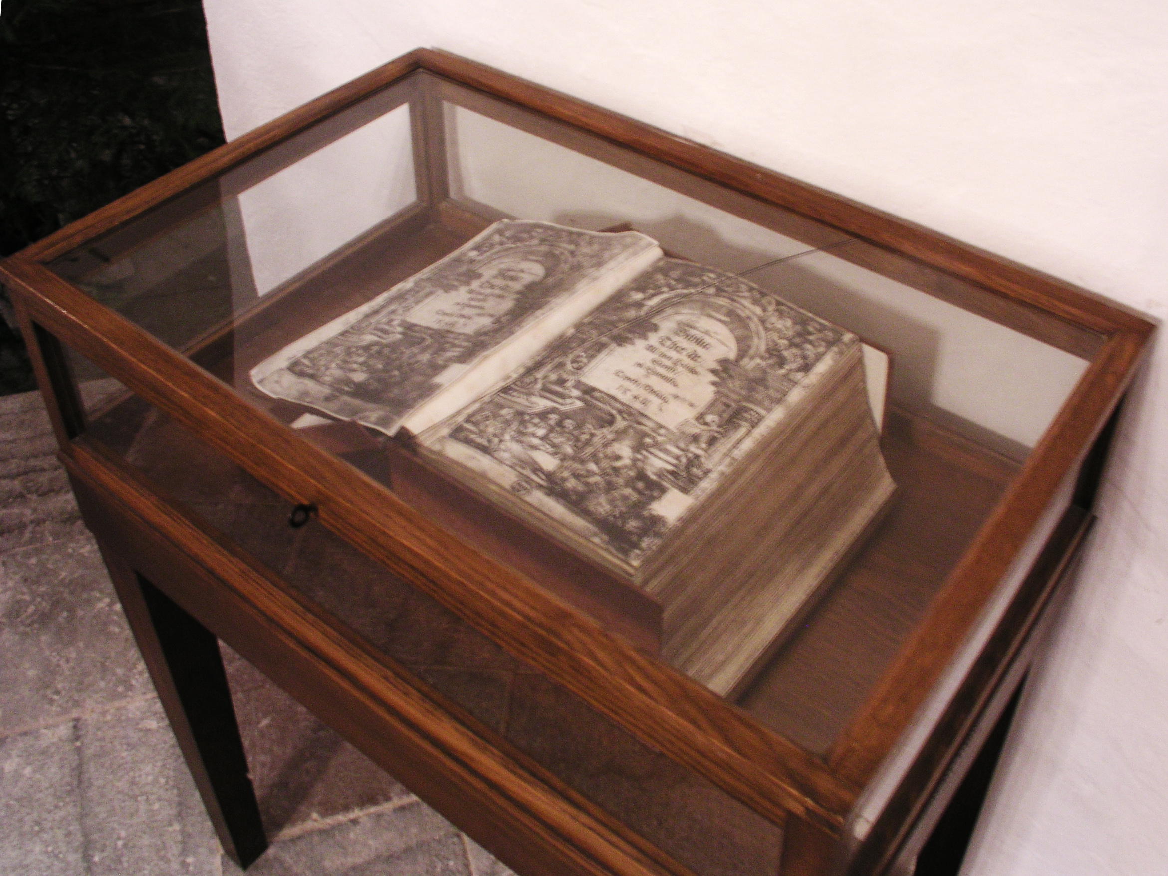 Östra Skrukebys kyrka, Diocese of Linköping, Sweden. Gustaf Vasa Bible. The picture was taken the 4th of december 2005 by Håkan Svensson (Xauxa).